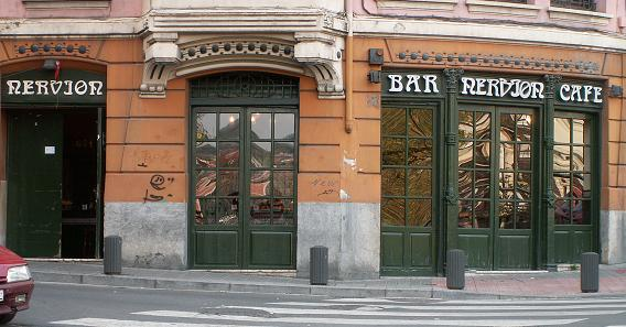 Bohemian Cafe louge from Bilbao